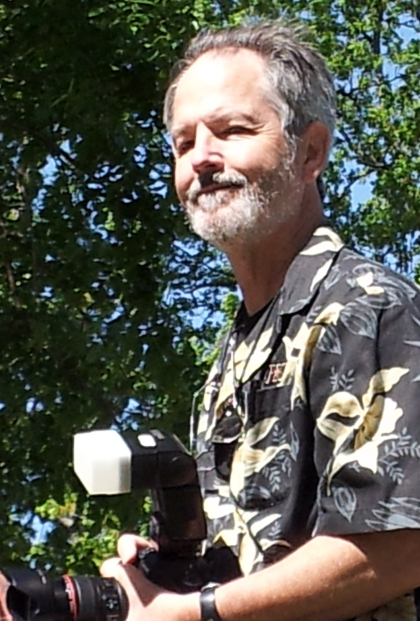 Alan Pogue, photographer. Austin Texas, April 2012